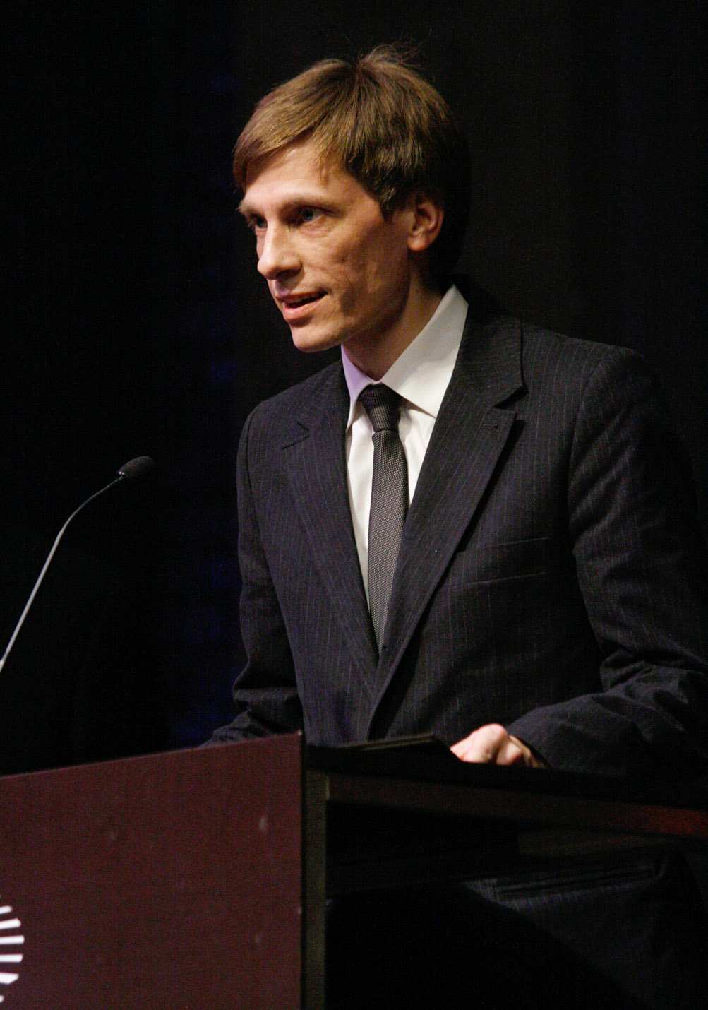 Benjamin Heisenberg (Best Director) at the Austrian Film Awards 2011 at the Odeon theater in Vienna.